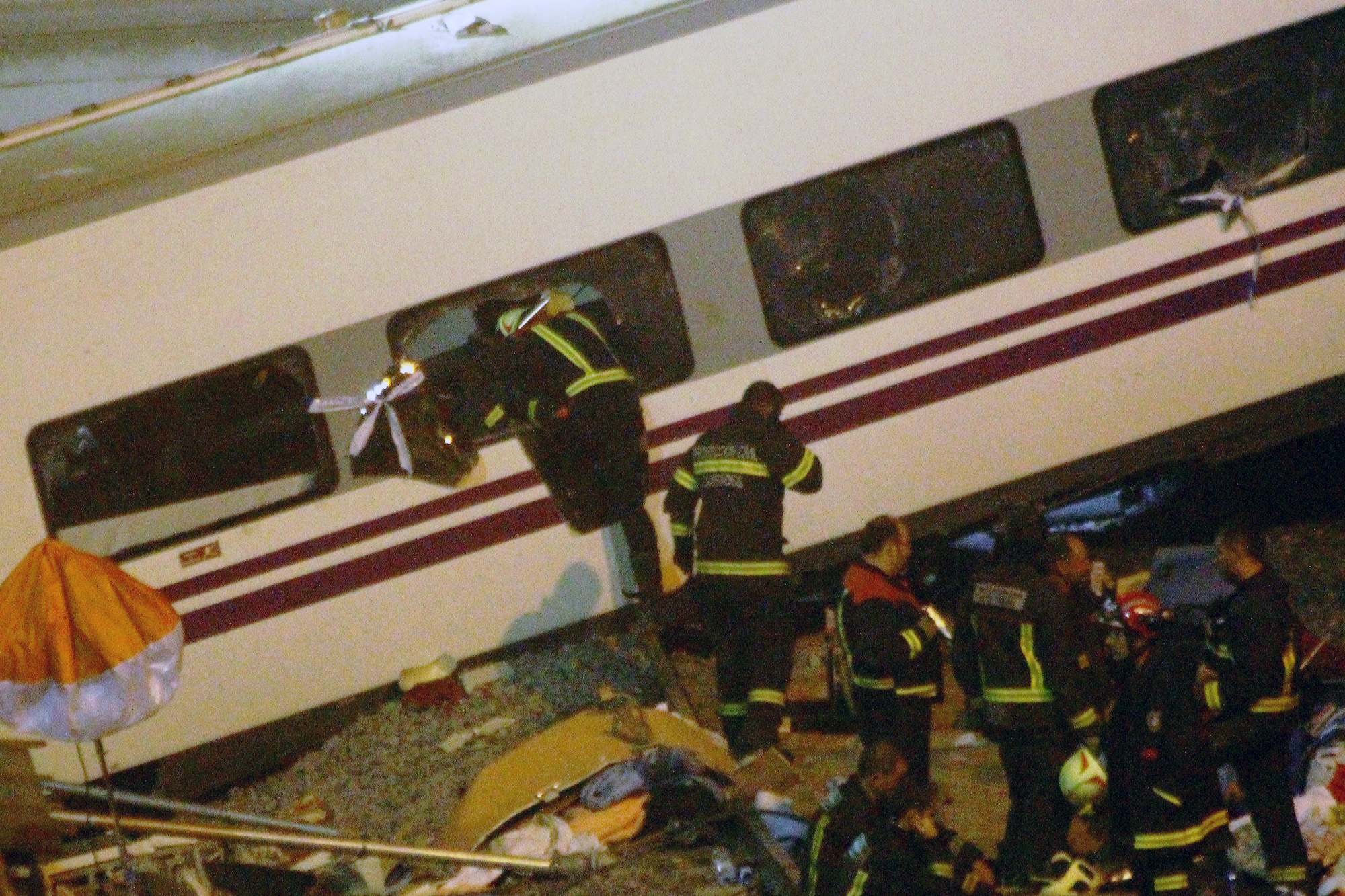 Tragedy in Santiago de Compostela Photos I made on-site of the train crash on July 24 near Santiago de Compostela. At the time of writing are counted 65 dead. It is the worst rail accident in Spain in the last 40 years.